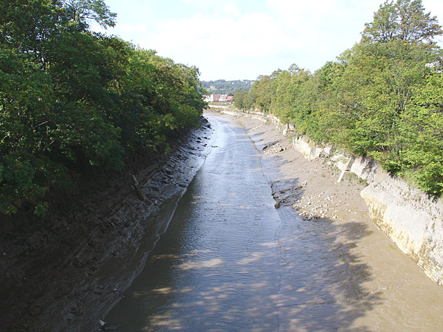 Looking along the New Cut at low tide, from Gaol Ferry Bridge.